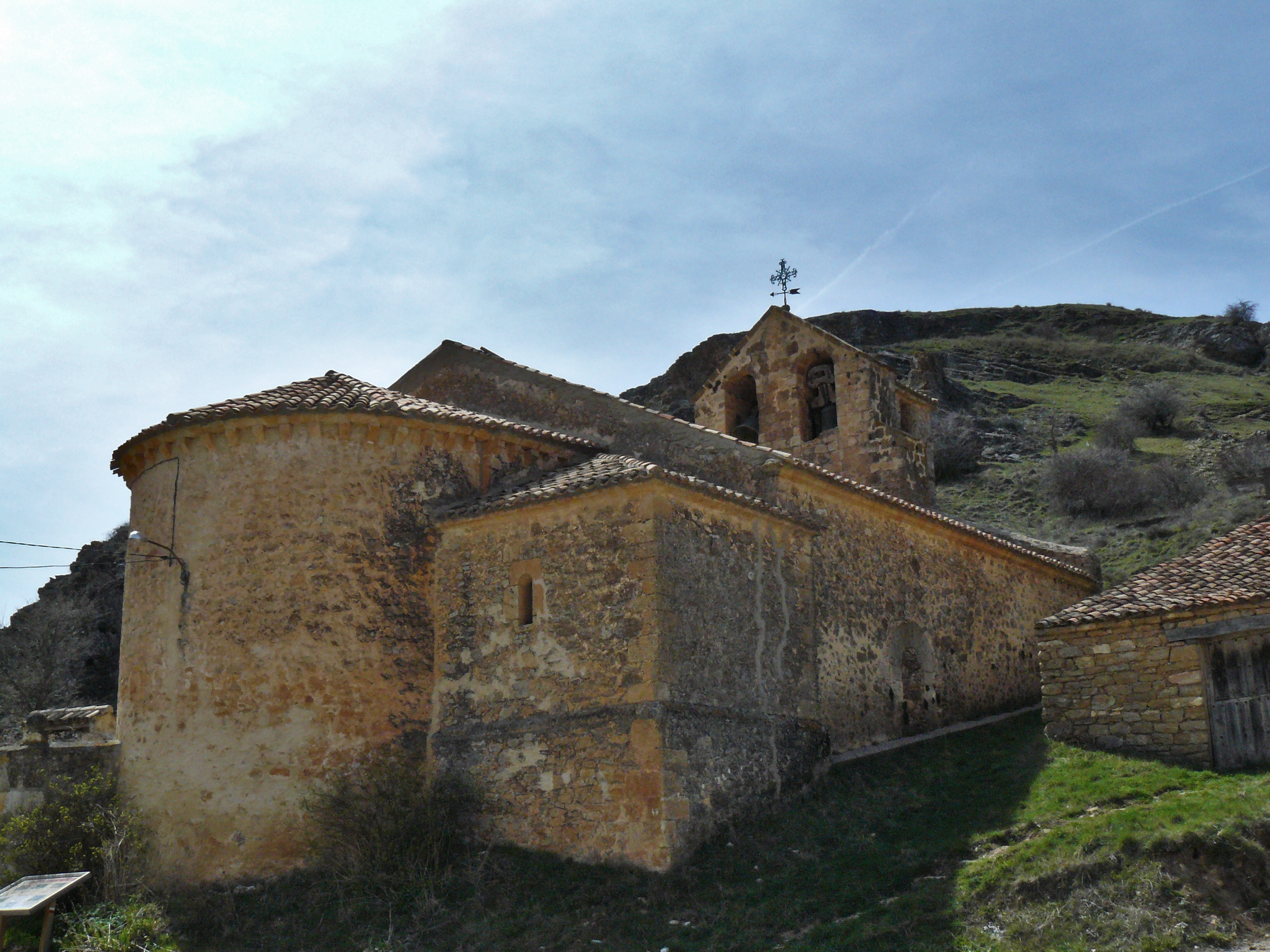 Church of La Asunción de Nuestra Señora, Lumías (Soria, Spain).